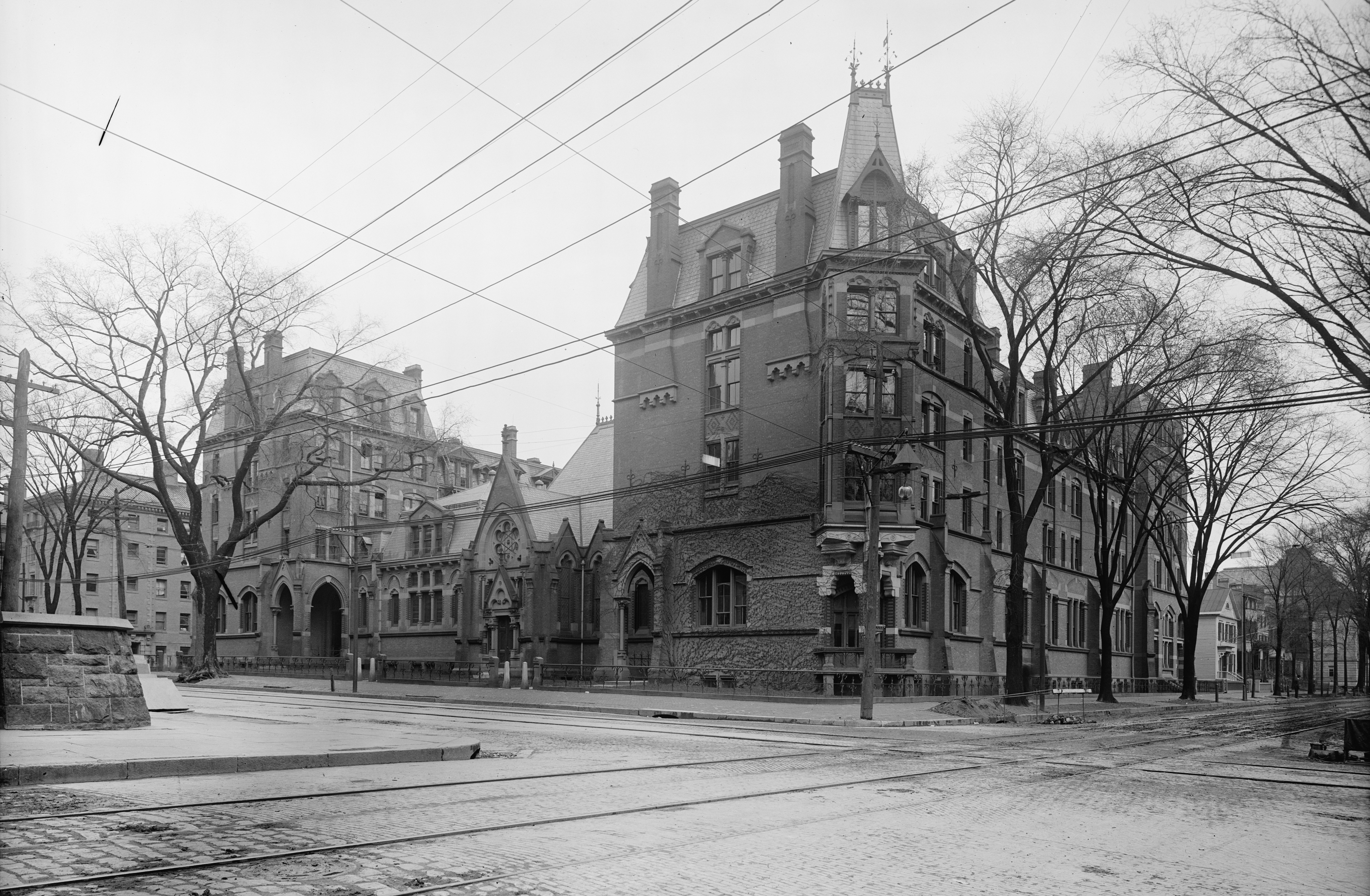 Old Divinity School building of the Yale Divinity School, the school's second home. Members completed between 1870 and 1874: East Divinity Hall (right, 1870), Marquand Chapel (center, 1872), and West Divinity Hall (left, 1874). The Bacon Memorial Library was added in 1881. Building was demolished in 1931 for Calhoun College, and the Divinity School moved to the Sterling Divinity Quadrangle. View across Elm Street and College Street, from the New Haven Green, New Haven, CT.